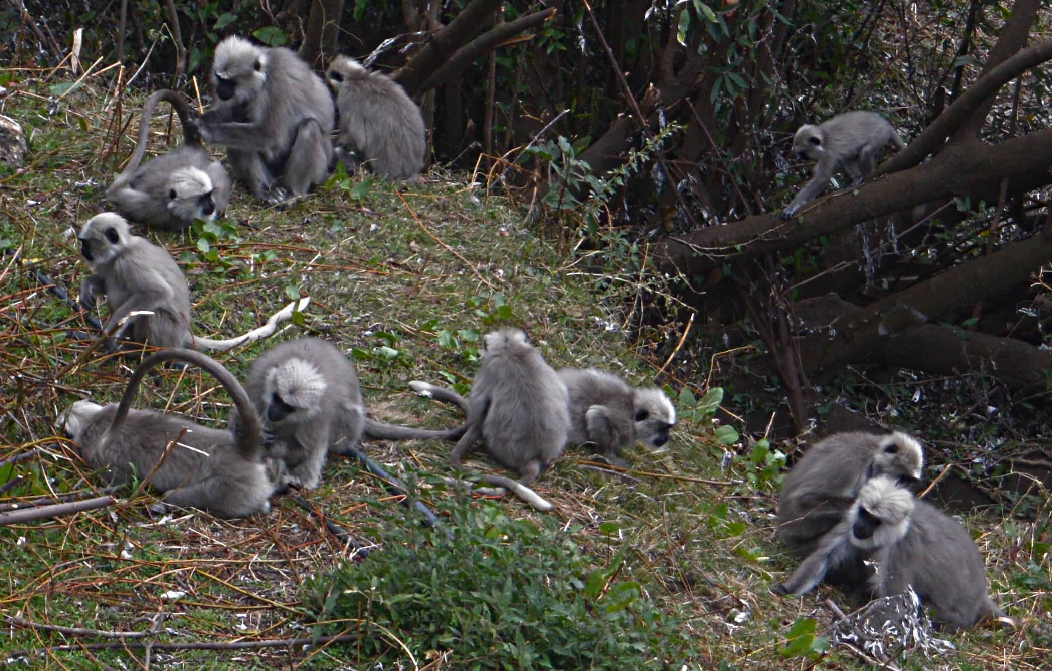 Social grooming in Hanuman langur; Shimla, India